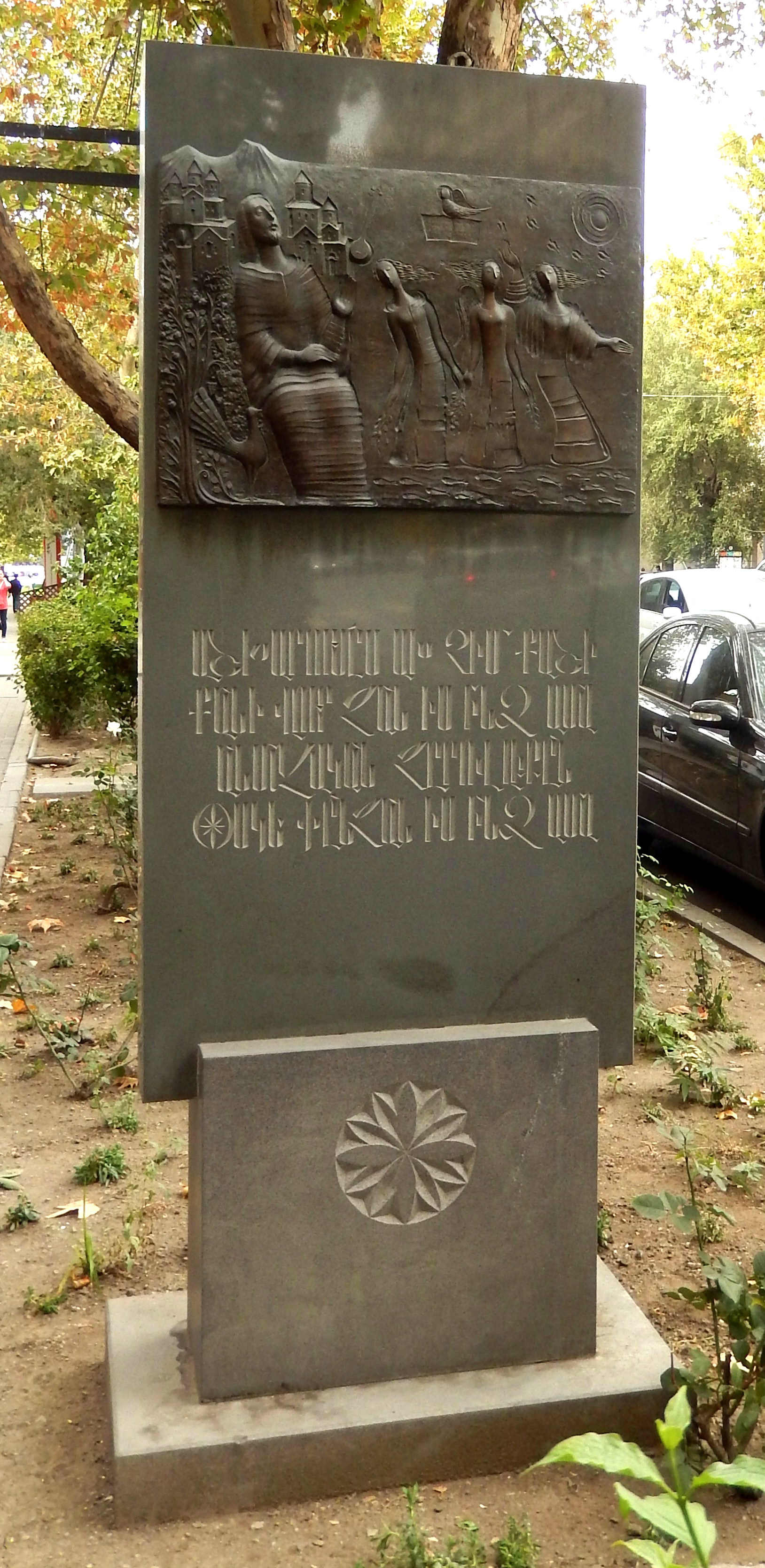 Գրիգոր Հասրաթյանի հիշատակի հուշաքար